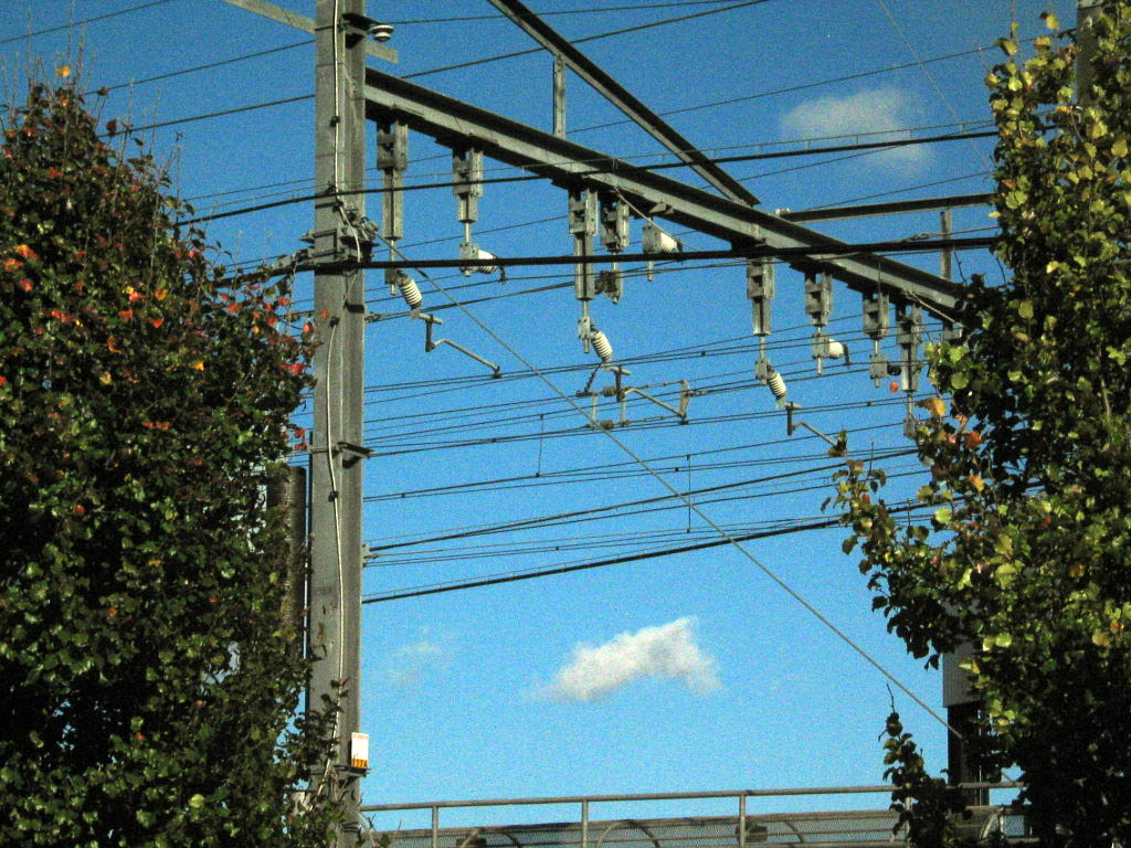 Such suspension is in use for Railway Catenary on Northeast Corridor Stretch